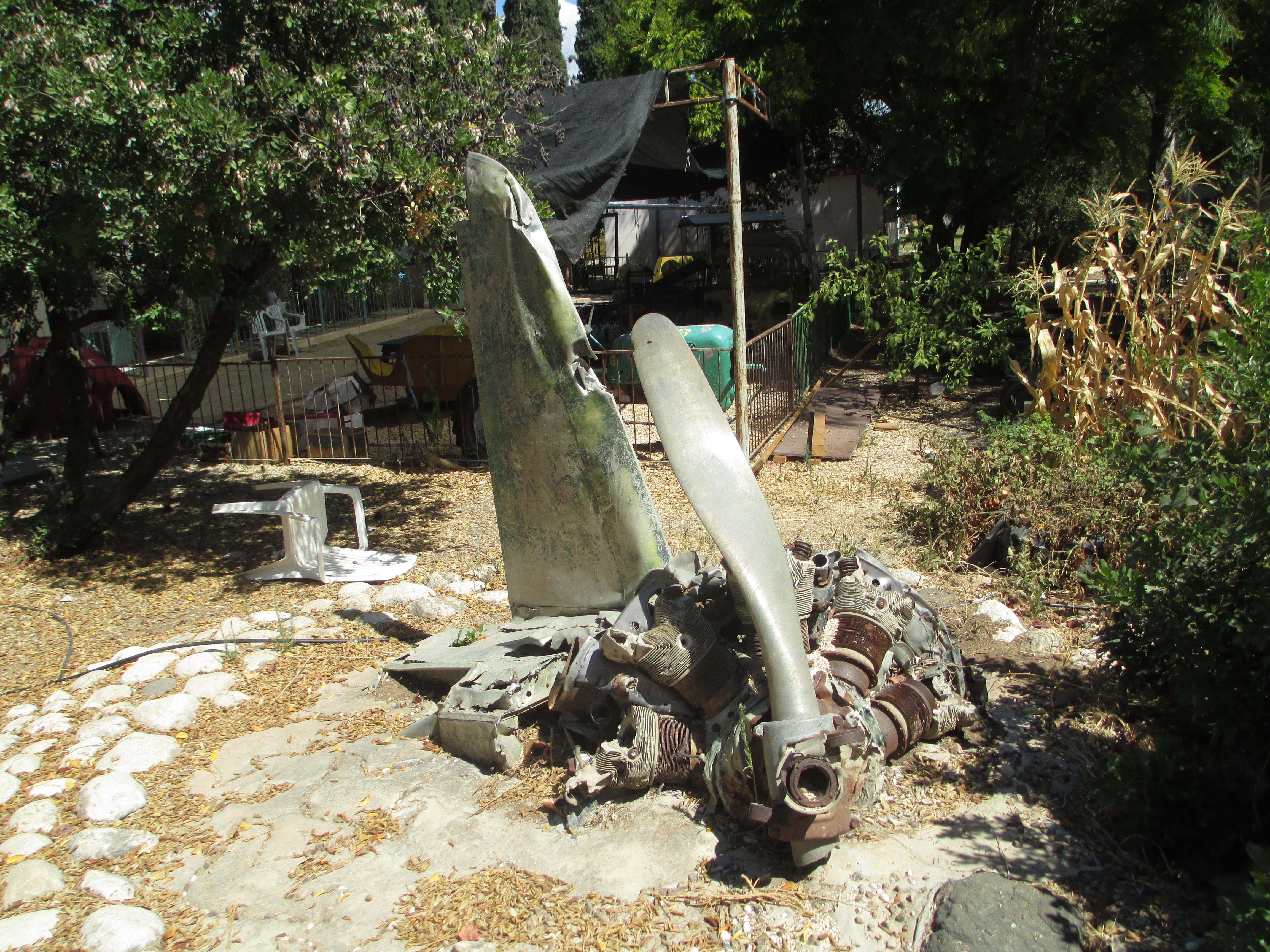 Remains of a syrian aircraft in kibbutz Ayelet Hashahar